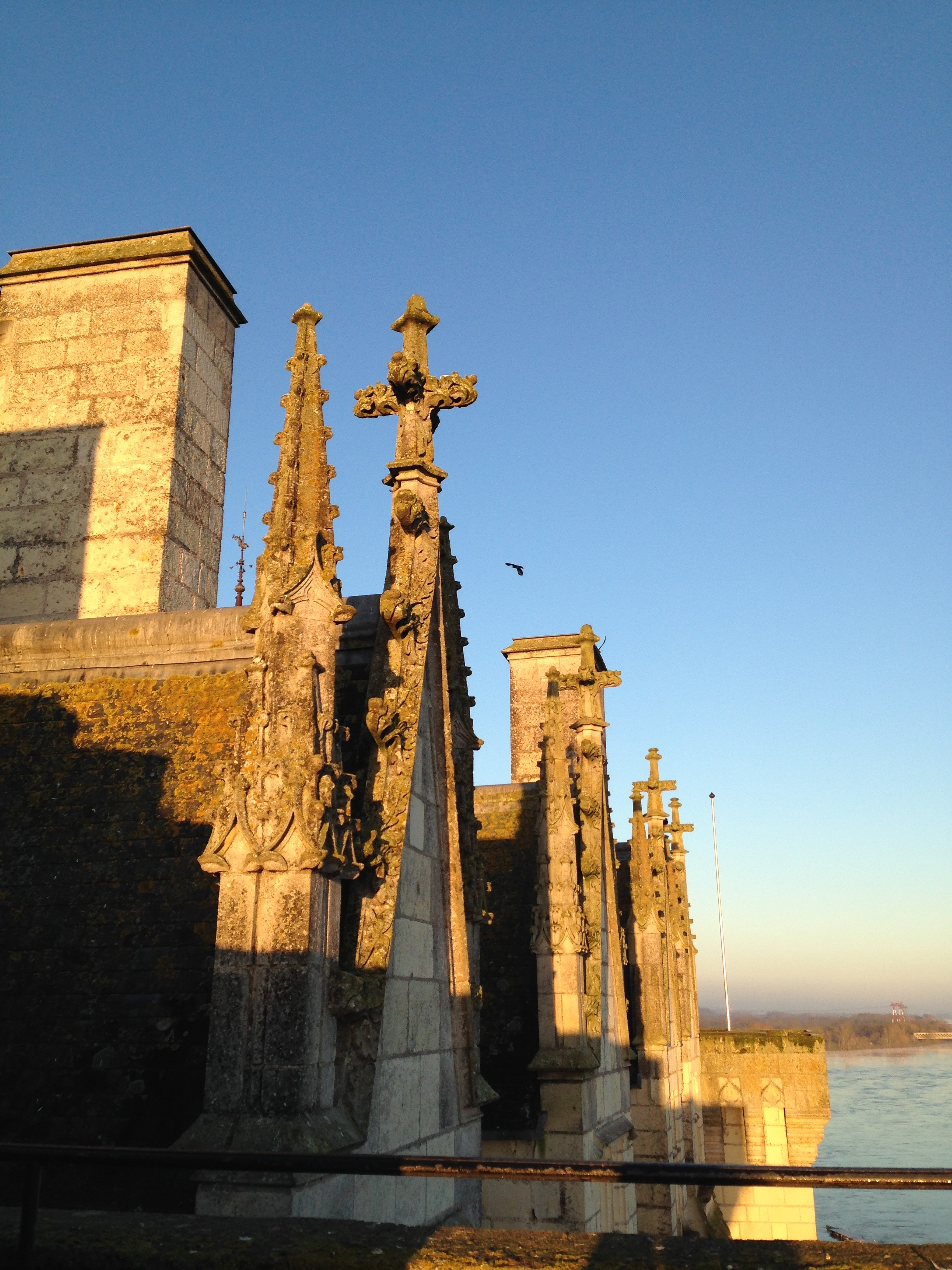 Terrasse of the château de montsoreau museum of contemporary art in the Loire Valley, Unesco World Heritage. View on the Loire river.